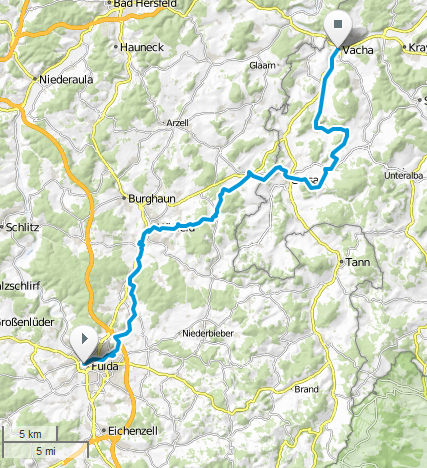 Way of. St James in Rhön, Vacha Fulda